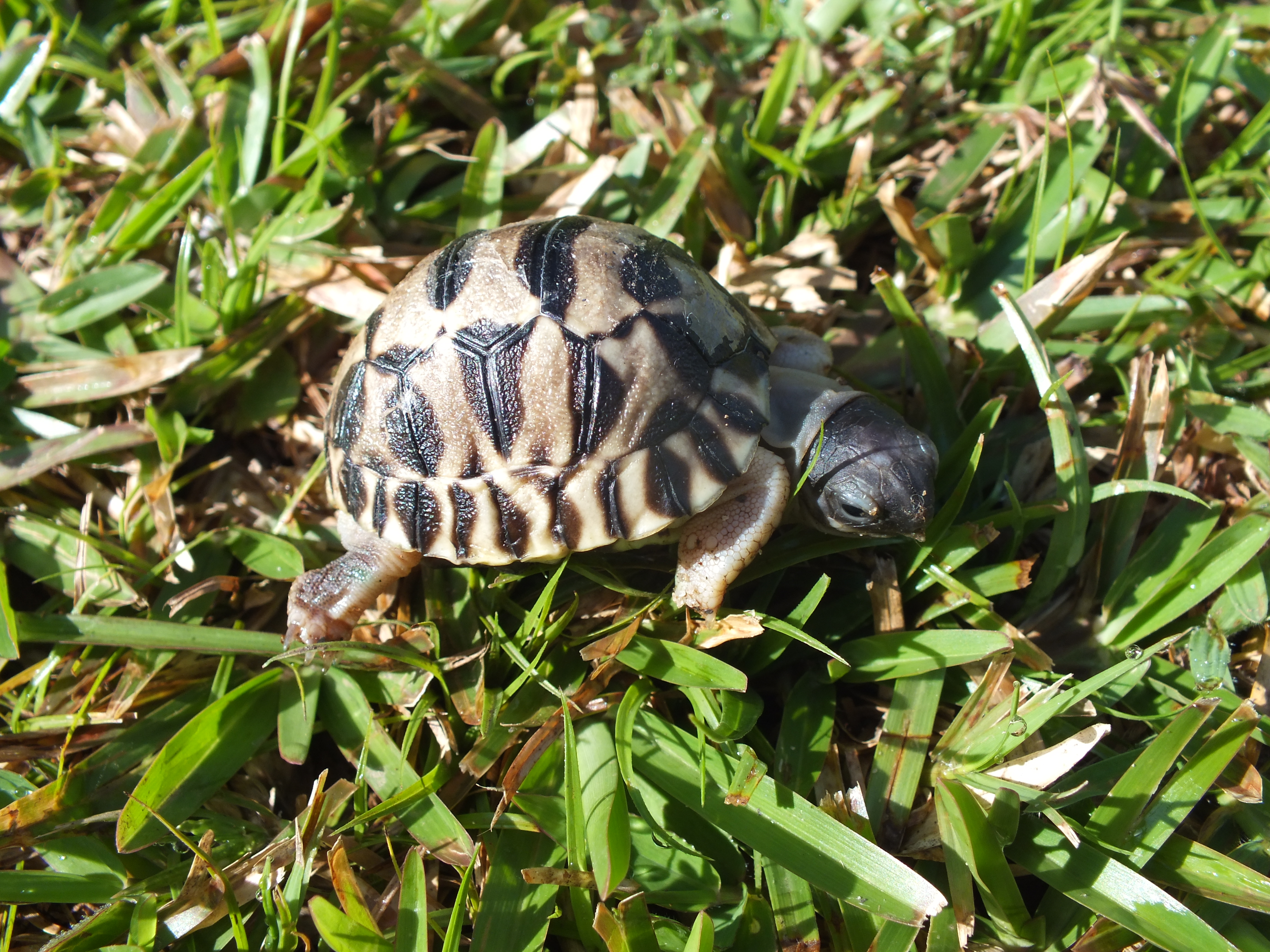 A very young Astrochelis radiata - 7 days after hatching ( birth) at Vakona forest lodge, Andasibe, Madagascar